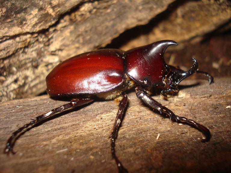 A 40mm long male of Xylotrupes sumatrensis